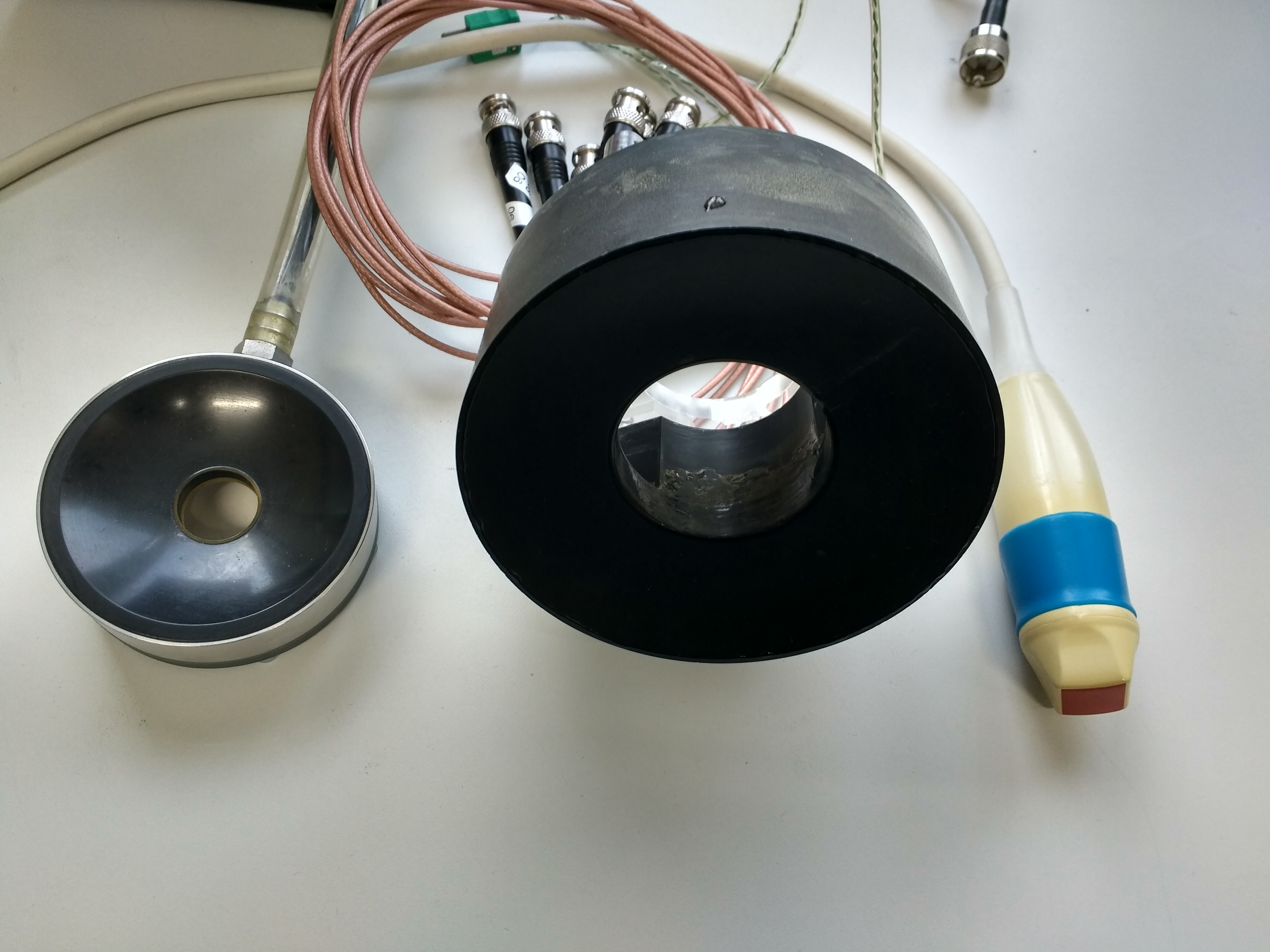 HIFU (high intensity focused ultrasound) transducers are used for heating tissue noninvasively with ultrasound. This is useful for treating a number of diseases including cancer. The transducers (or probes) differ from those that most people are familiar with for imaging, so this comparison picture has been made. On the left are two HIFU transducers with focused lenses to achieve high intensity inside the body. On the right is an imaging probe for using ultrasound to image the heart.